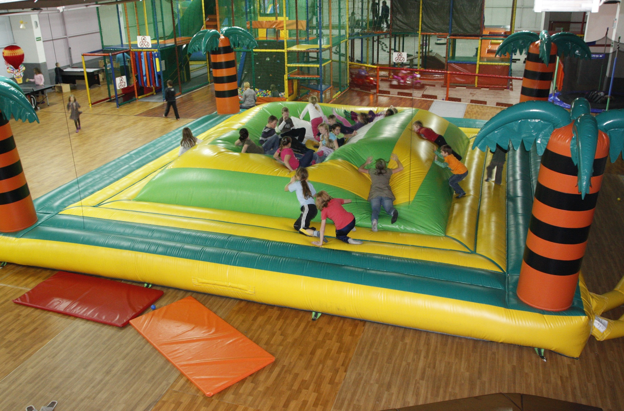 Playground